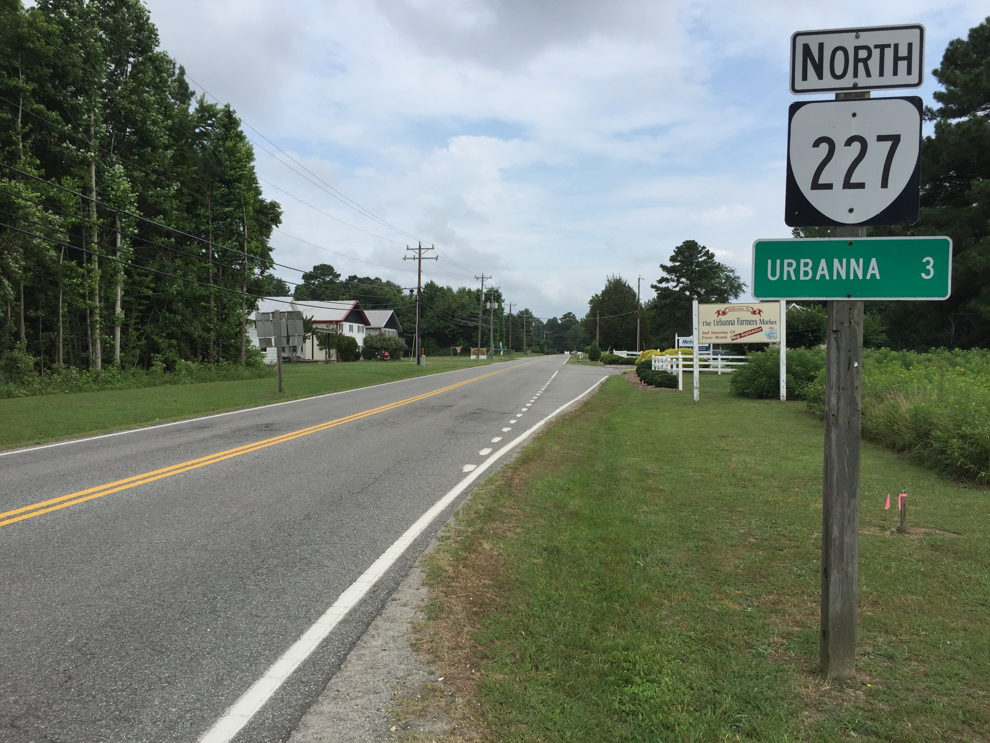 View north along Virginia State Route 227 (Urbanna Road) at Virginia State Route 33 (General Puller Highway) in Cooks Corner, Middlesex County, Virginia